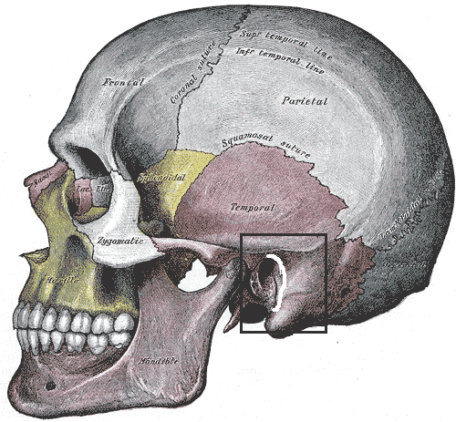 Side view of the skull.